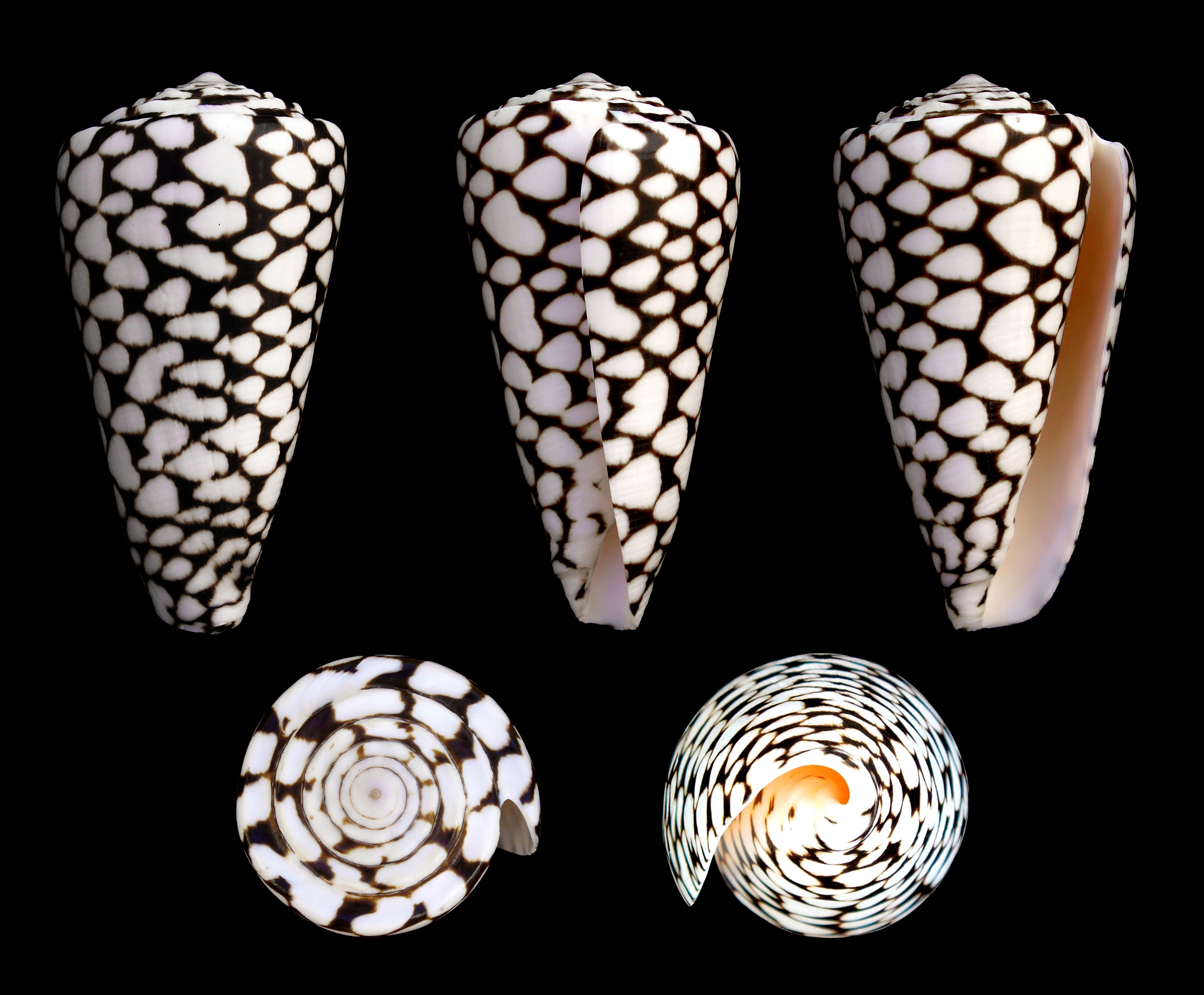 Marbled Cone, length 9 cm, originating from the Indopacific. Shell of own collection, therefore not geocoded. From left to right: Dorsal, lateral (right side), ventral, back, and front view.